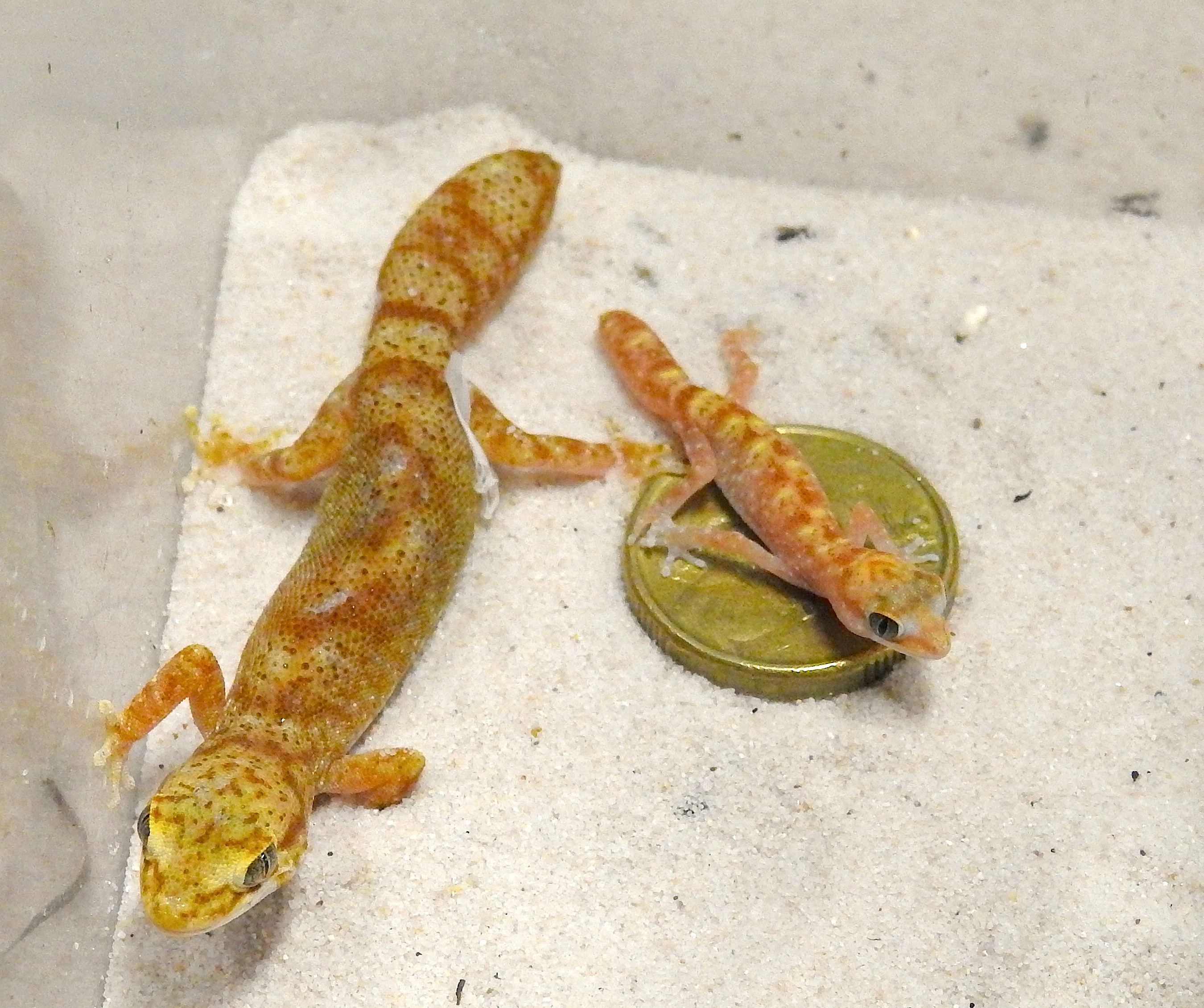 Adult D. tessellatus in comparative to a hatchling. Specimens courtesy of R. Worthy.